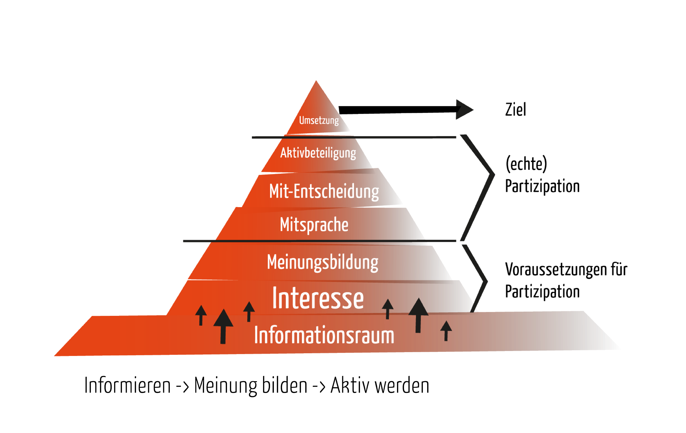 Phases of participation (in German)